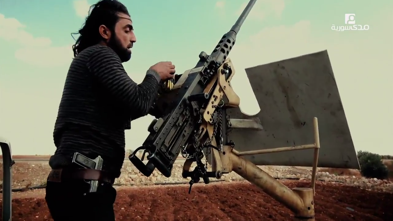 A Free Syrian Army fighter loads an M2 Browning heavy machine gun on a technical in northern Aleppo.